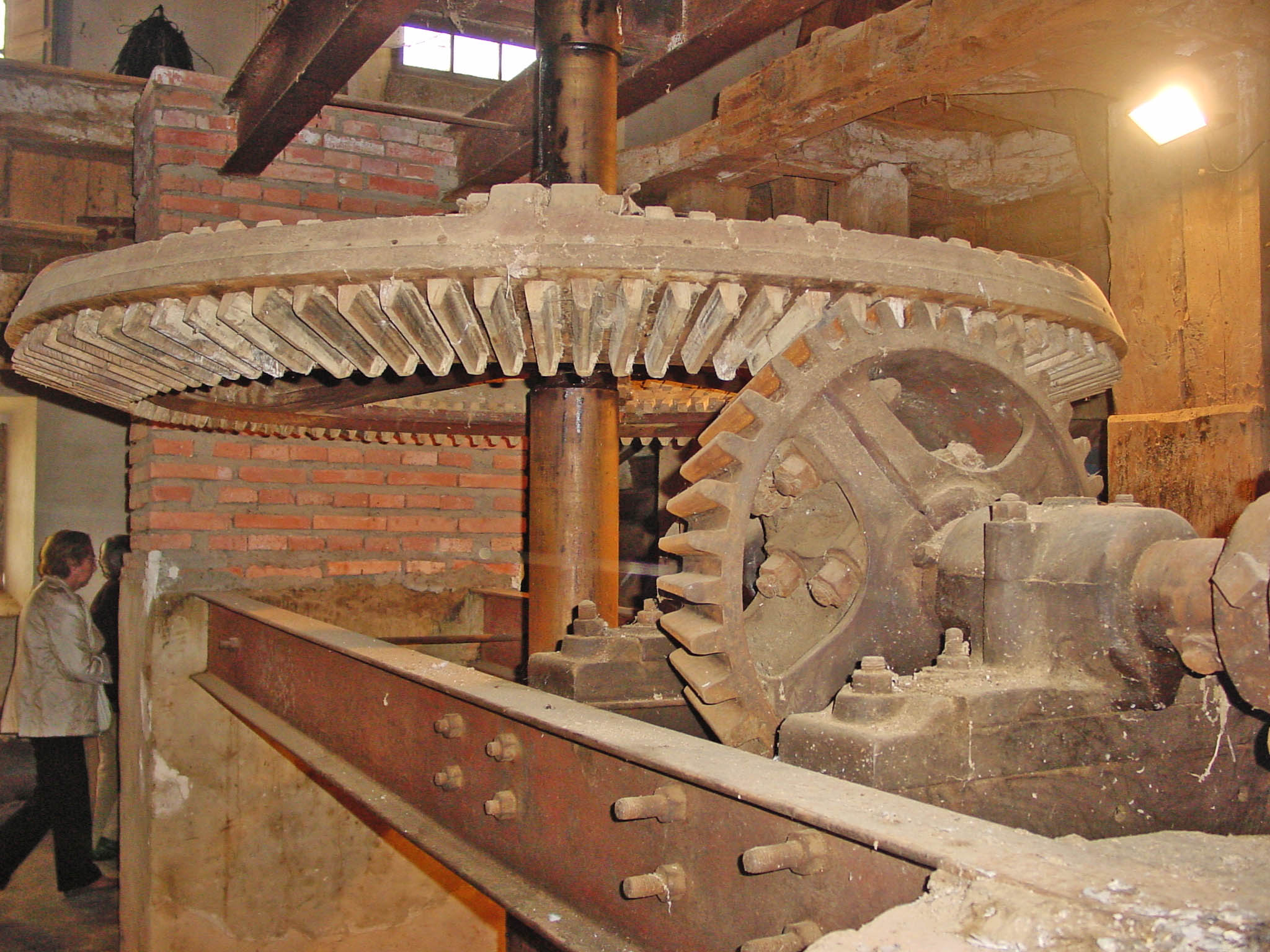 Factory of flour San Antonio, at the dock of the Channel of Castile in Medina de Rioseco, Valladolid Spain. Conical gear. The turbine is under the vertical axis which is moved by the water of the channel. The horizontal axis transmits the power to an axis of pulleys.